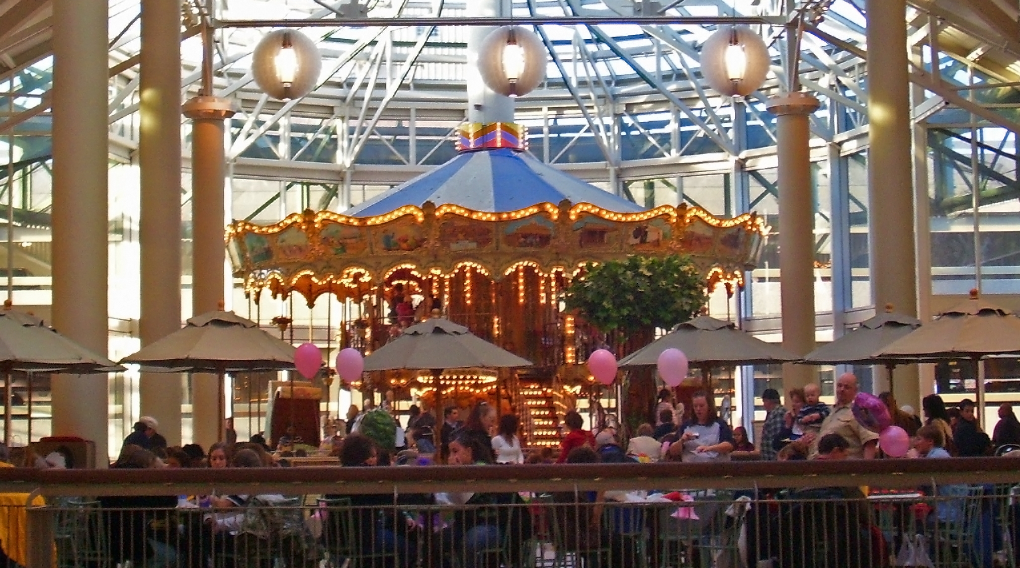 Carousel in food court at Danbury Fair Mall in Danbury, CT, USA recalling property's past as fairground